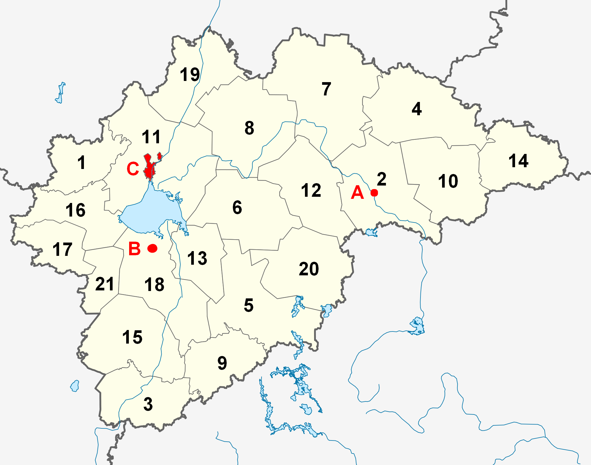 Numbered map of Novgorod Oblast